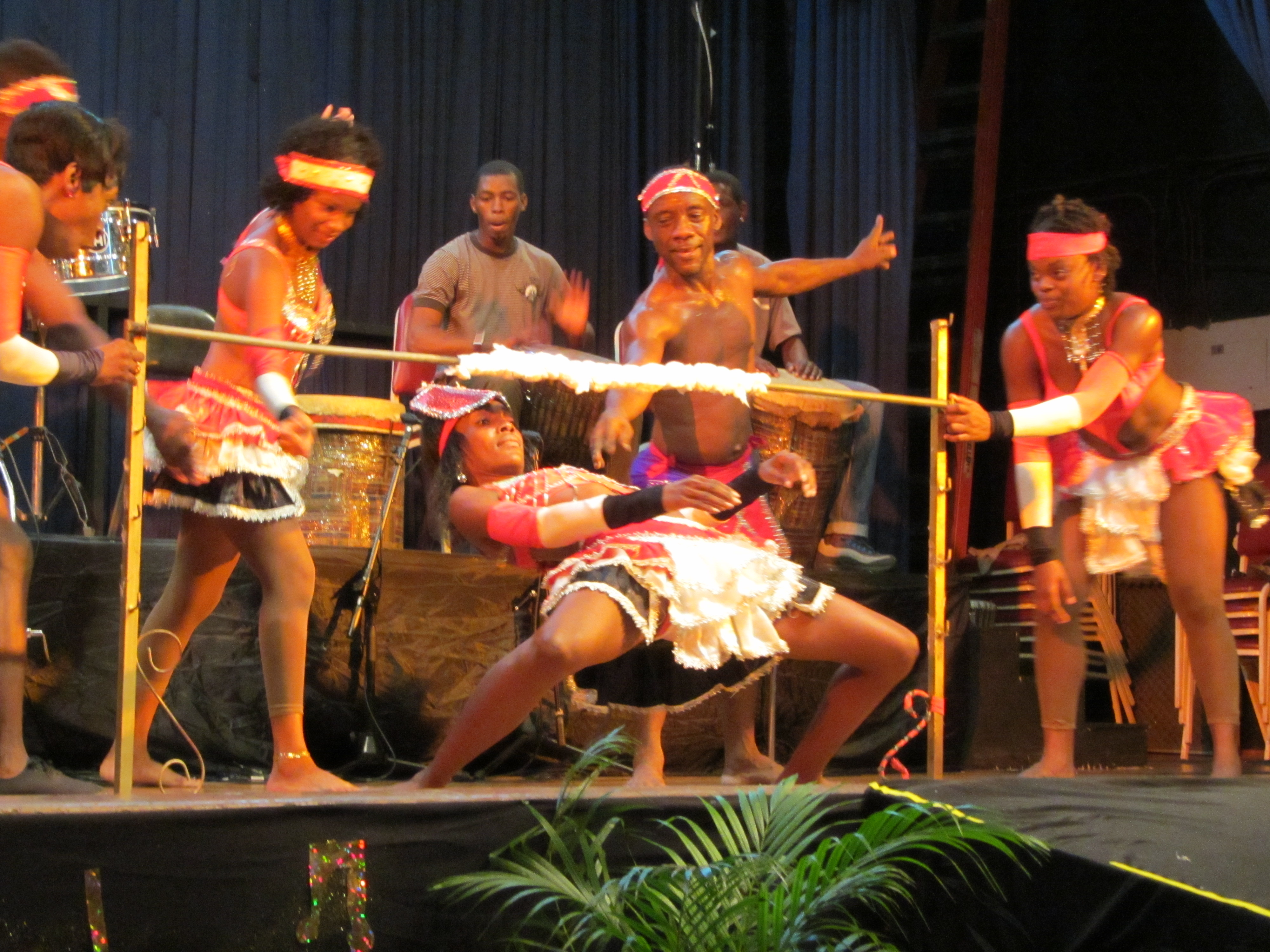 Folk Music and Limbo Dance Performance at The Cityhall of Port of Spain in Trinidad